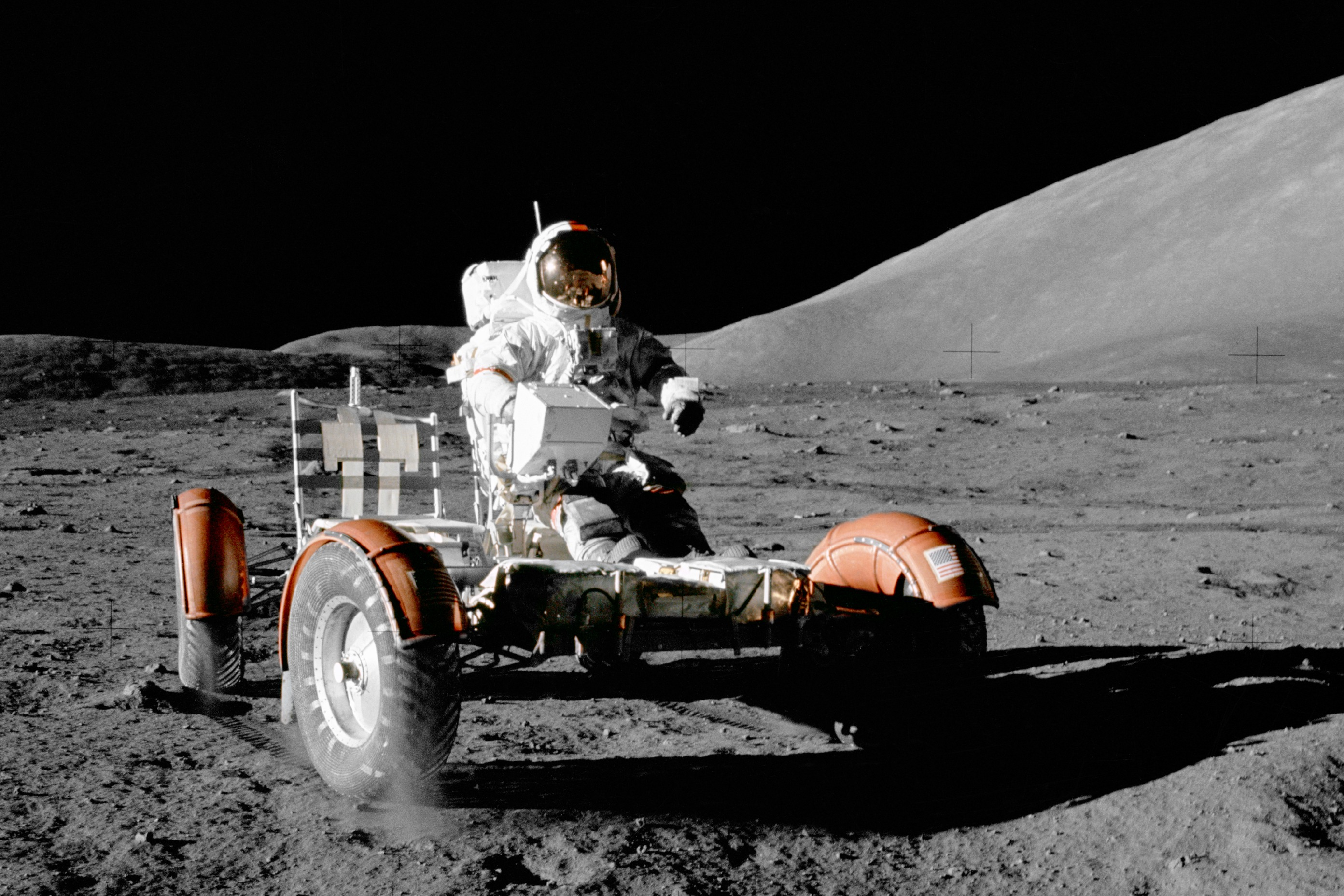 Croppped version of: File:NASA Apollo 17 Lunar Roving Vehicle.jpg